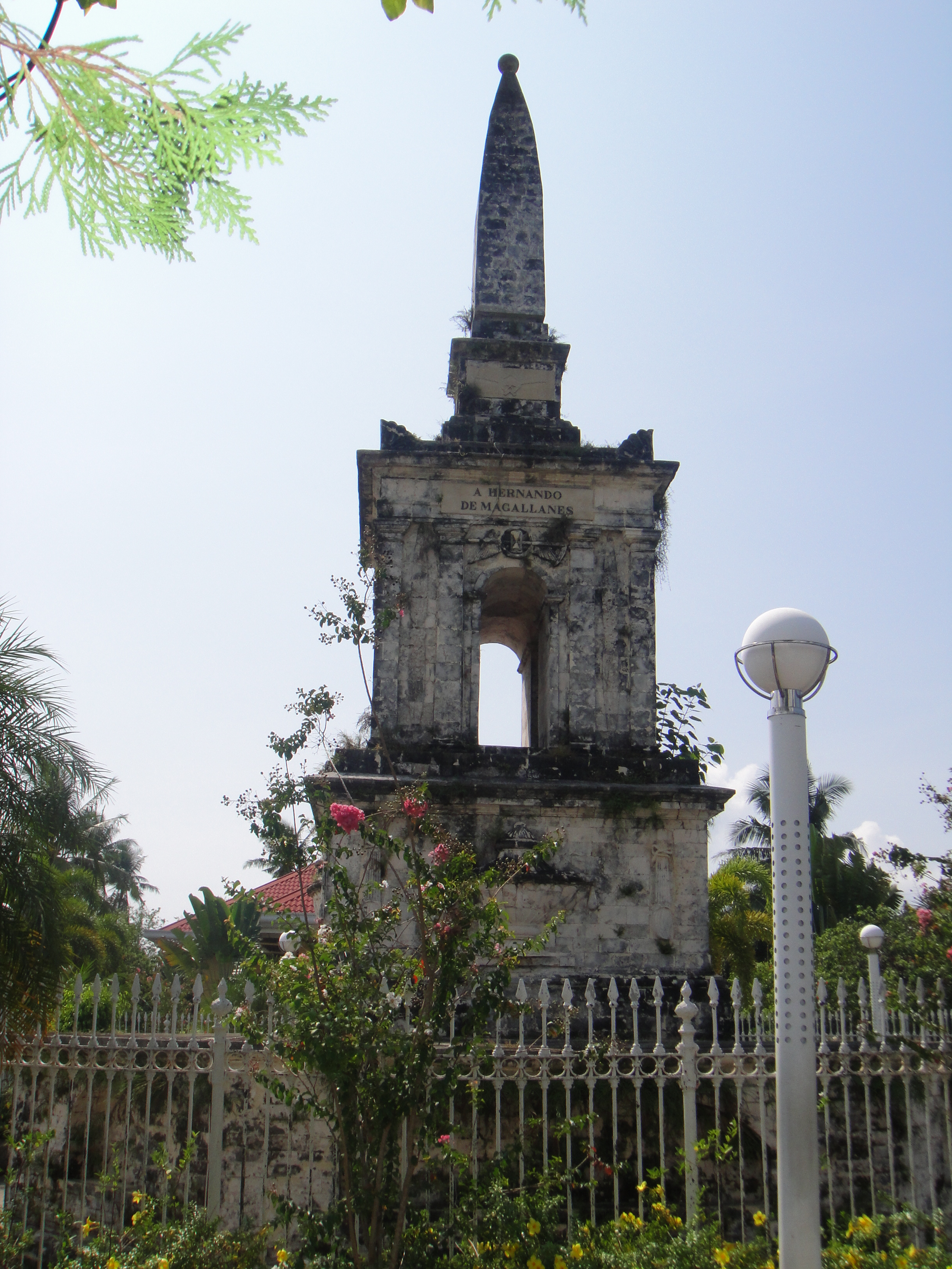 The Magellan Shrine is the place that is believed to be the area where Magellan is killed